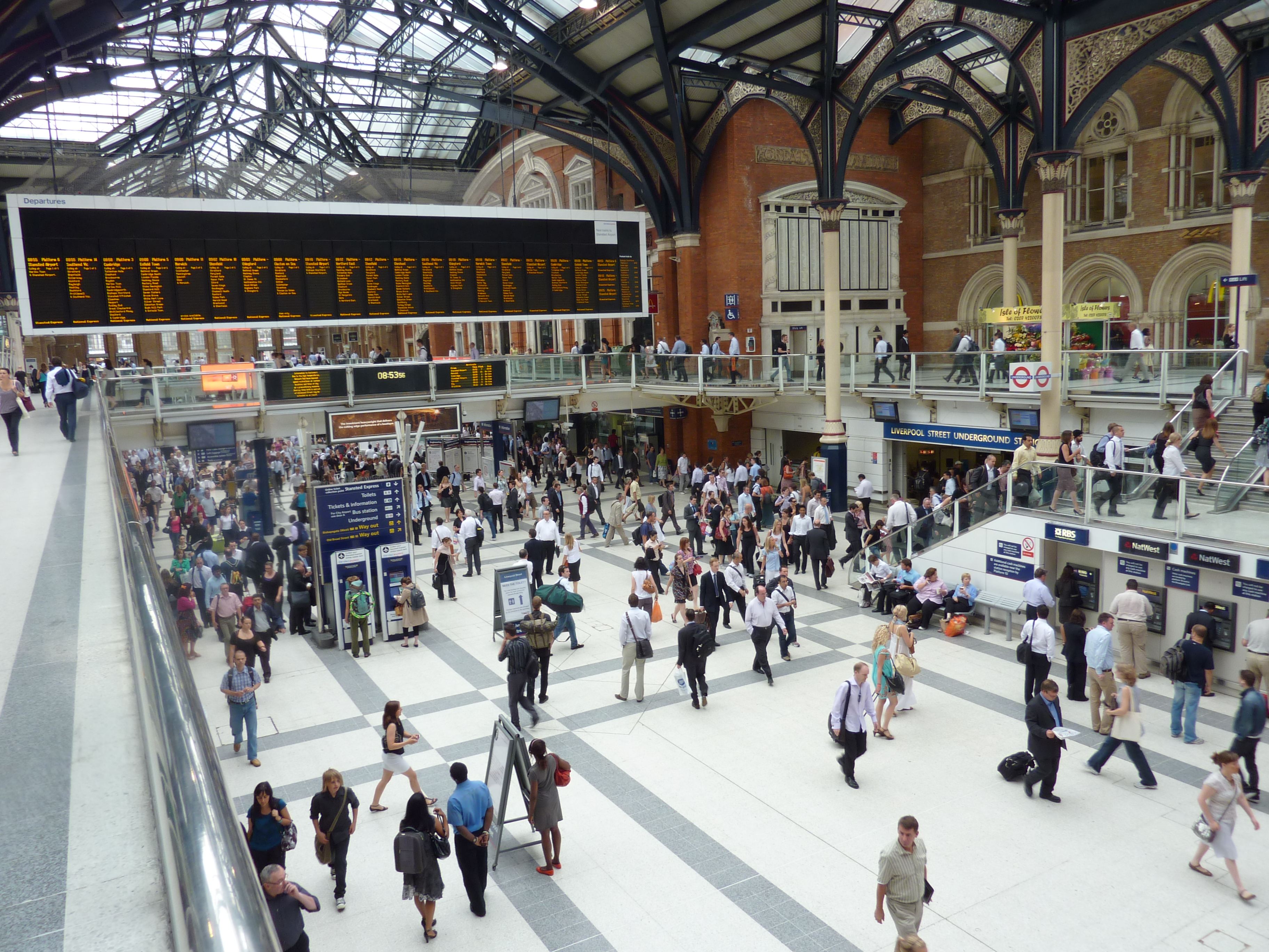 The concourse at London's Liverpool Street rail terminal.